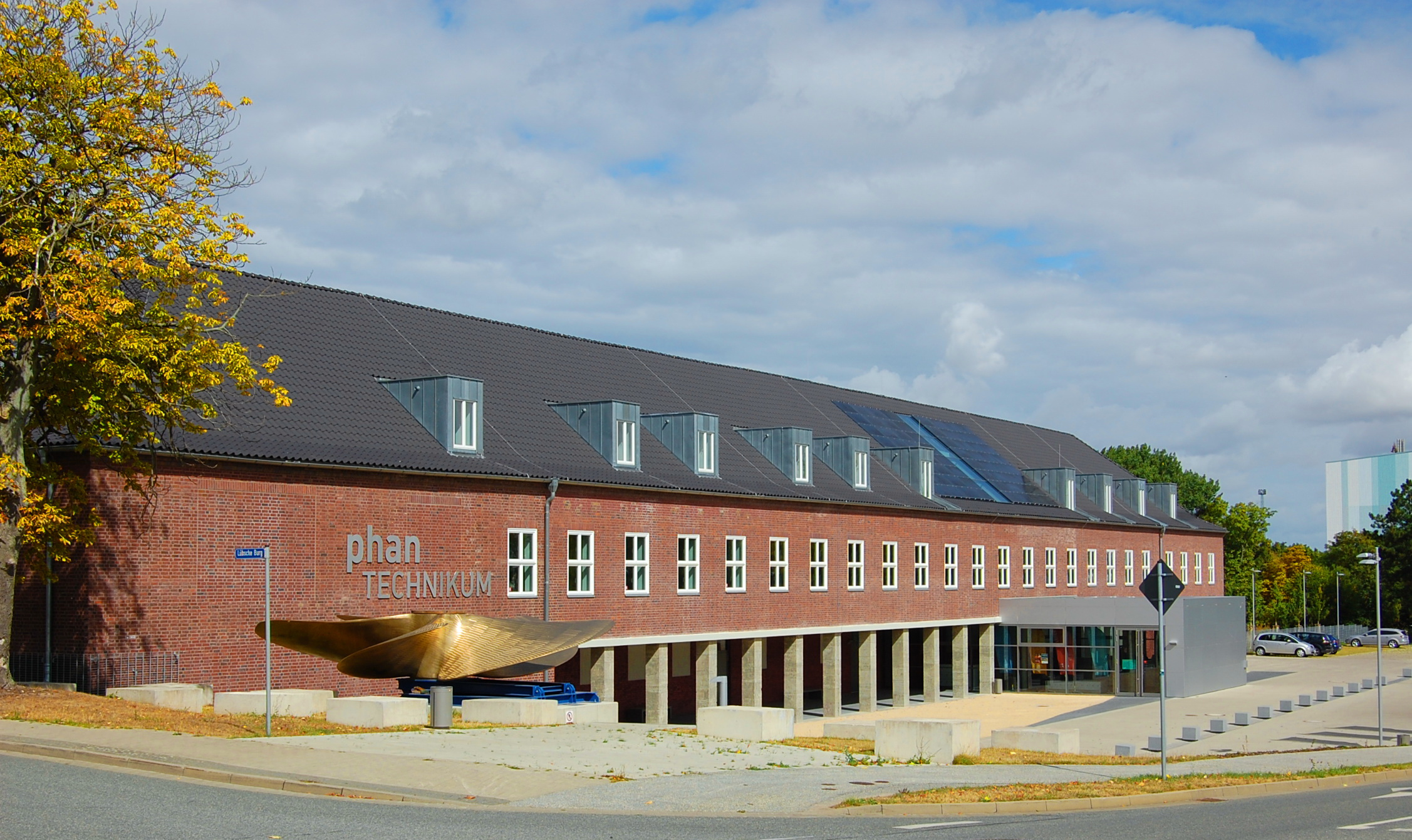 Widok budynku muzeum